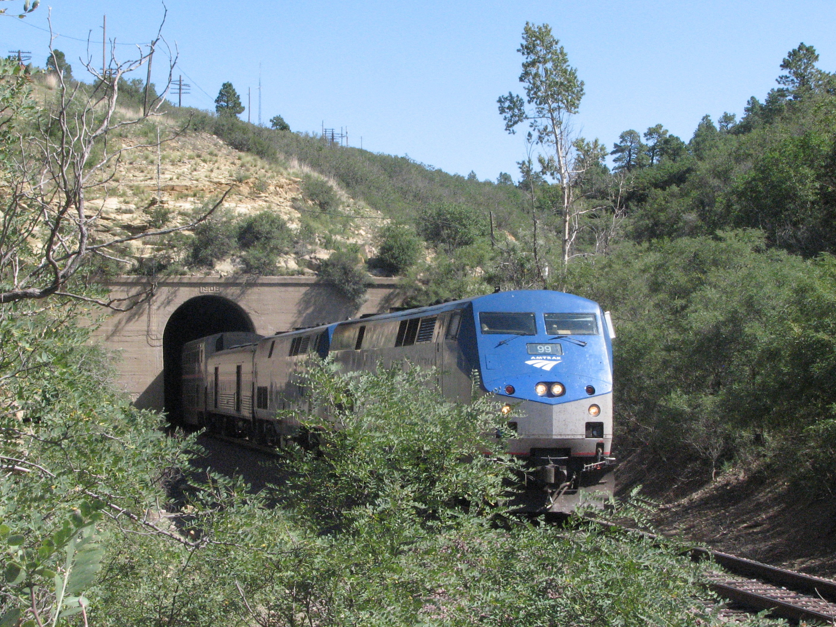 Amtrak engine 99 pulls the westbound Southwest Chief out of the Raton Tunnel near the summit of Raton Pass.